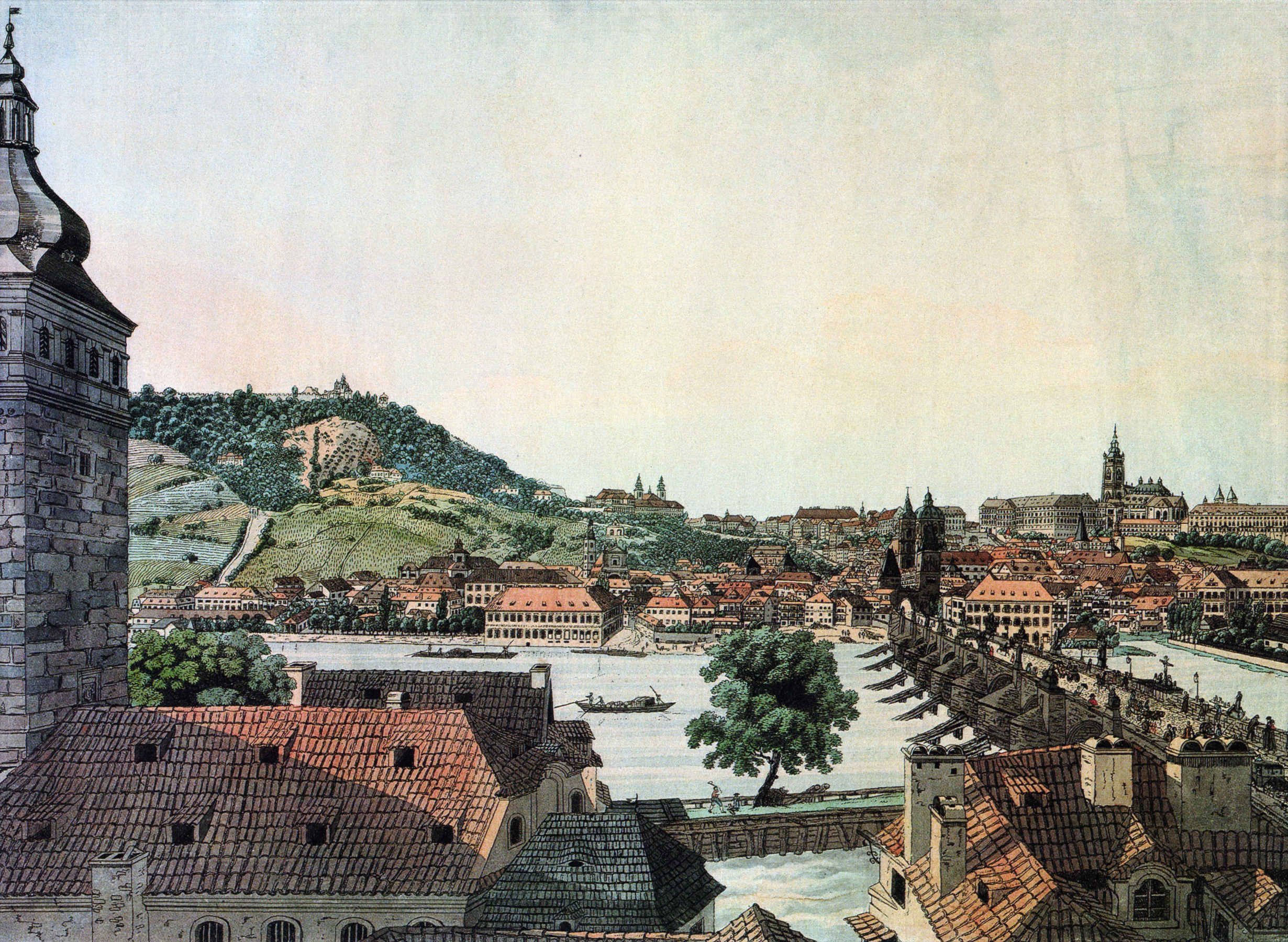 Prague Castle, Petřín hill, Charles Bridge, memorable lime-tree, 1820.